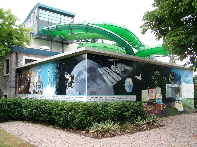 Woking Park Fuel Cell, around the back of the town's swimming pool centre. This is the UK's first fuel cell combined heat and power (CHP) system at Woking's Pool in the Park. A fuel cell is similar to a battery except that fuel is fed into the cell to generate electricity and heat by an electro-chemical process producing pure water as its output emission. Fuel cell technology generates 50% more electricity than the conventional equivalent without burning any fuel. The fuel cell supports the Pool in the Park's heating and power systems and Woking Park's lighting.